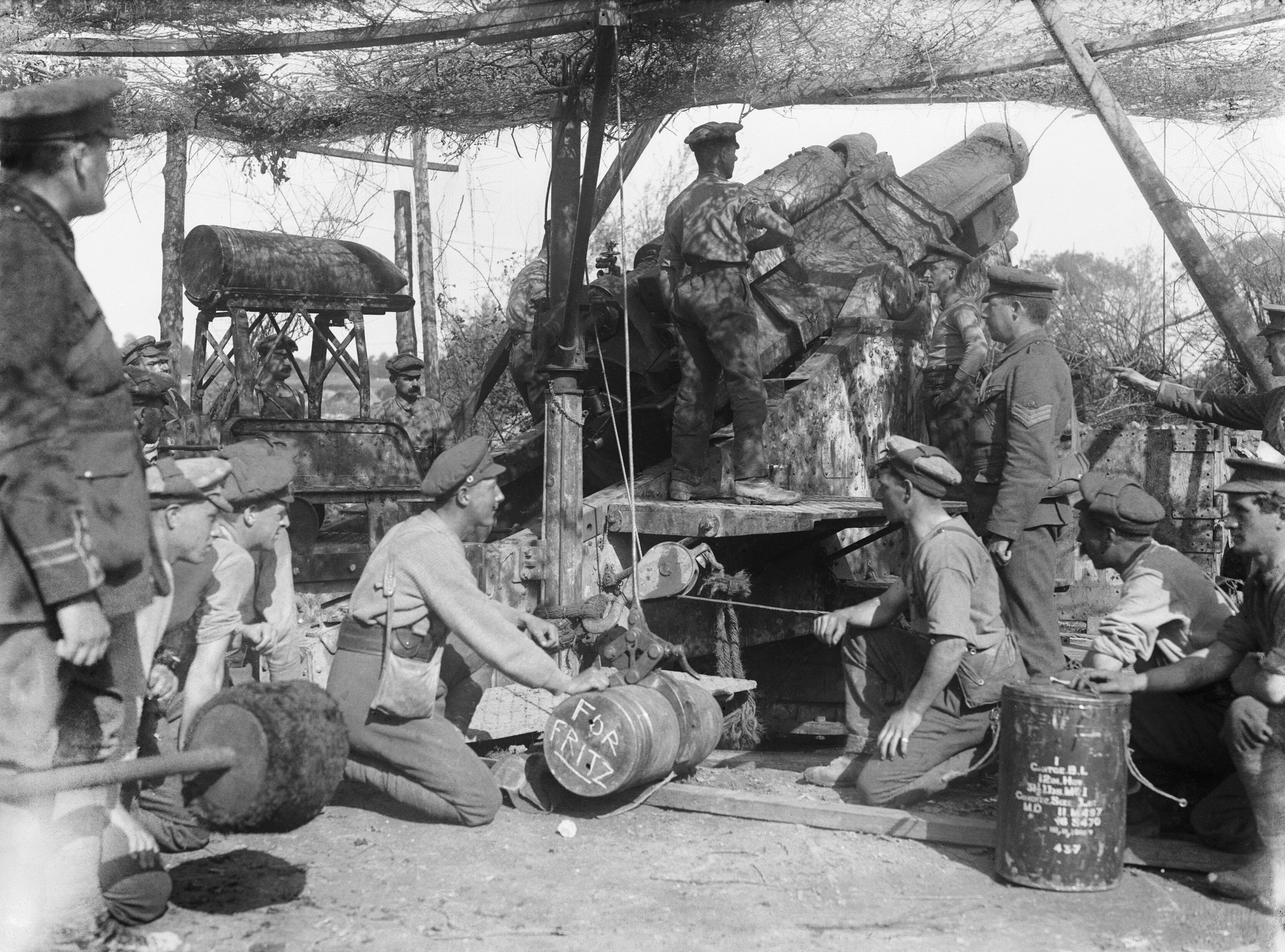 THE BATTLE OF THE SOMME 1 JULY - 18 NOVEMBER 1916 The Battle of Thiepval 26-28 September: A 12 inch howitzer Mk II, its shell daubed 'For Fritz', preparing for action near Aveluy Wood